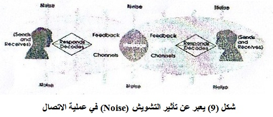 ( Description شكل يعبر عن تأثير التشويش nullOther versions null ) شكل يعبر عن تأثير التشويش